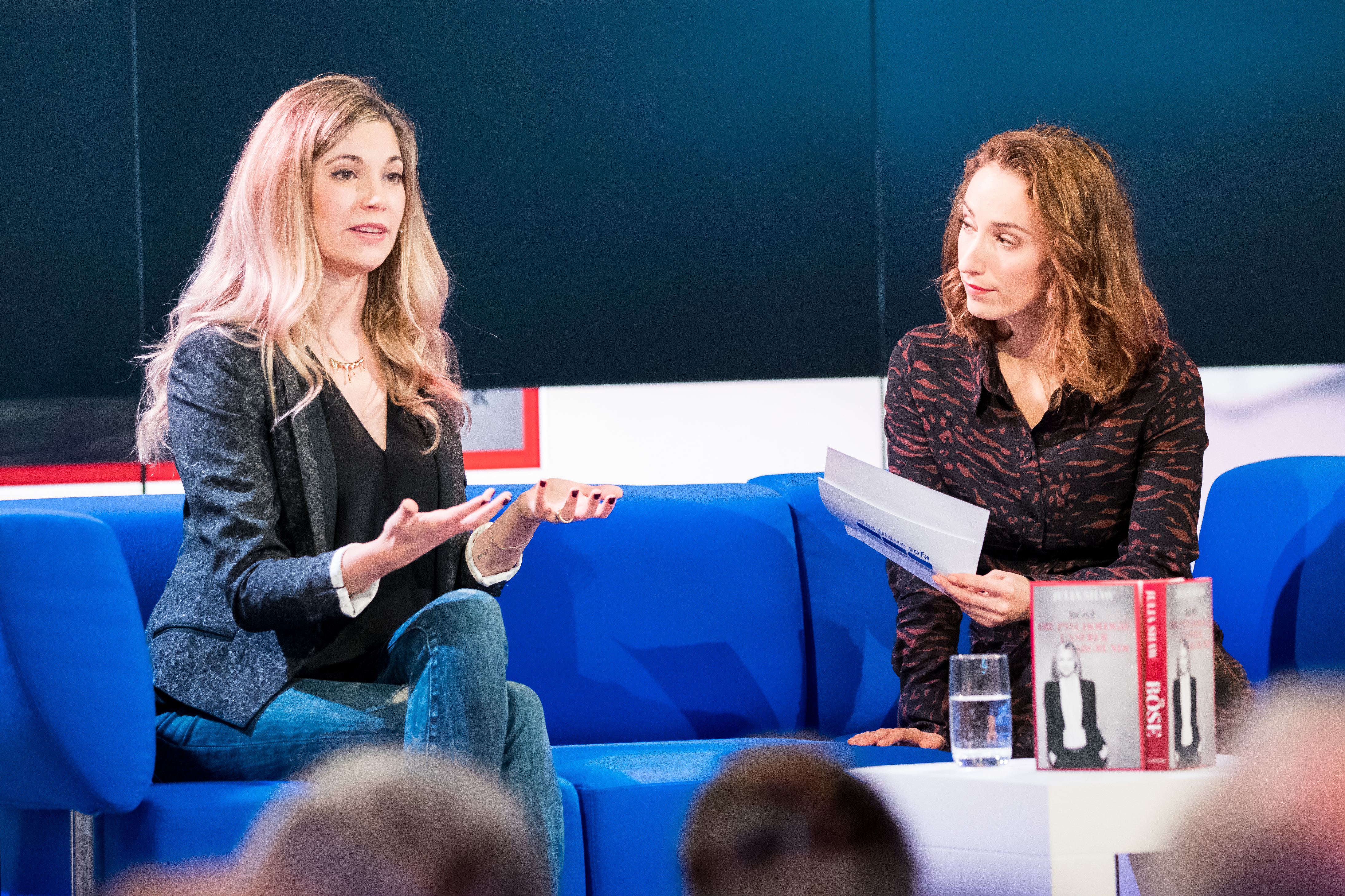 Julia Shaw, Vivian Perkovic during Frankfurter Buchmesse at Messe Frankfurt, Frankfurt, Hessen, Germany on 2018-10-13, Photo